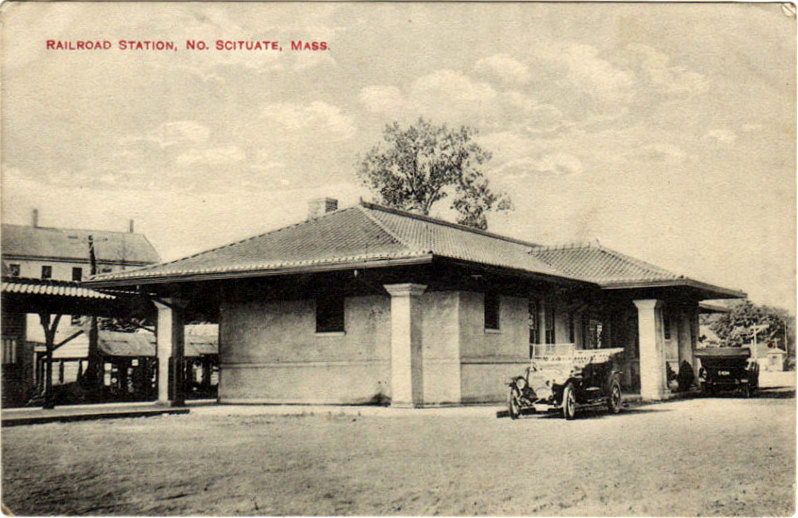 1912 postcard of the 1909 Spanish-style station at North Scituate, Massachusetts